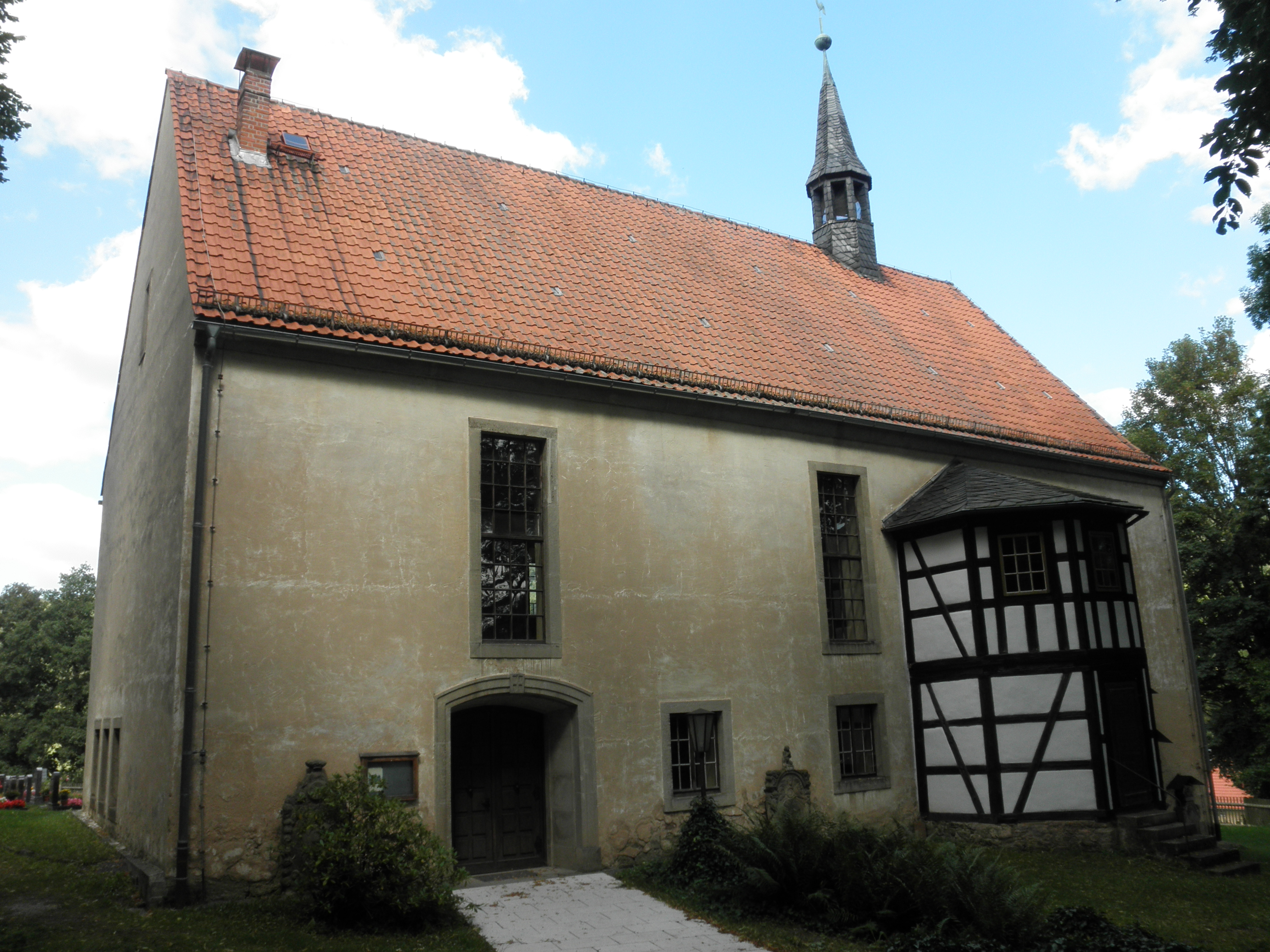 Church in Renthendorf in Thuringia